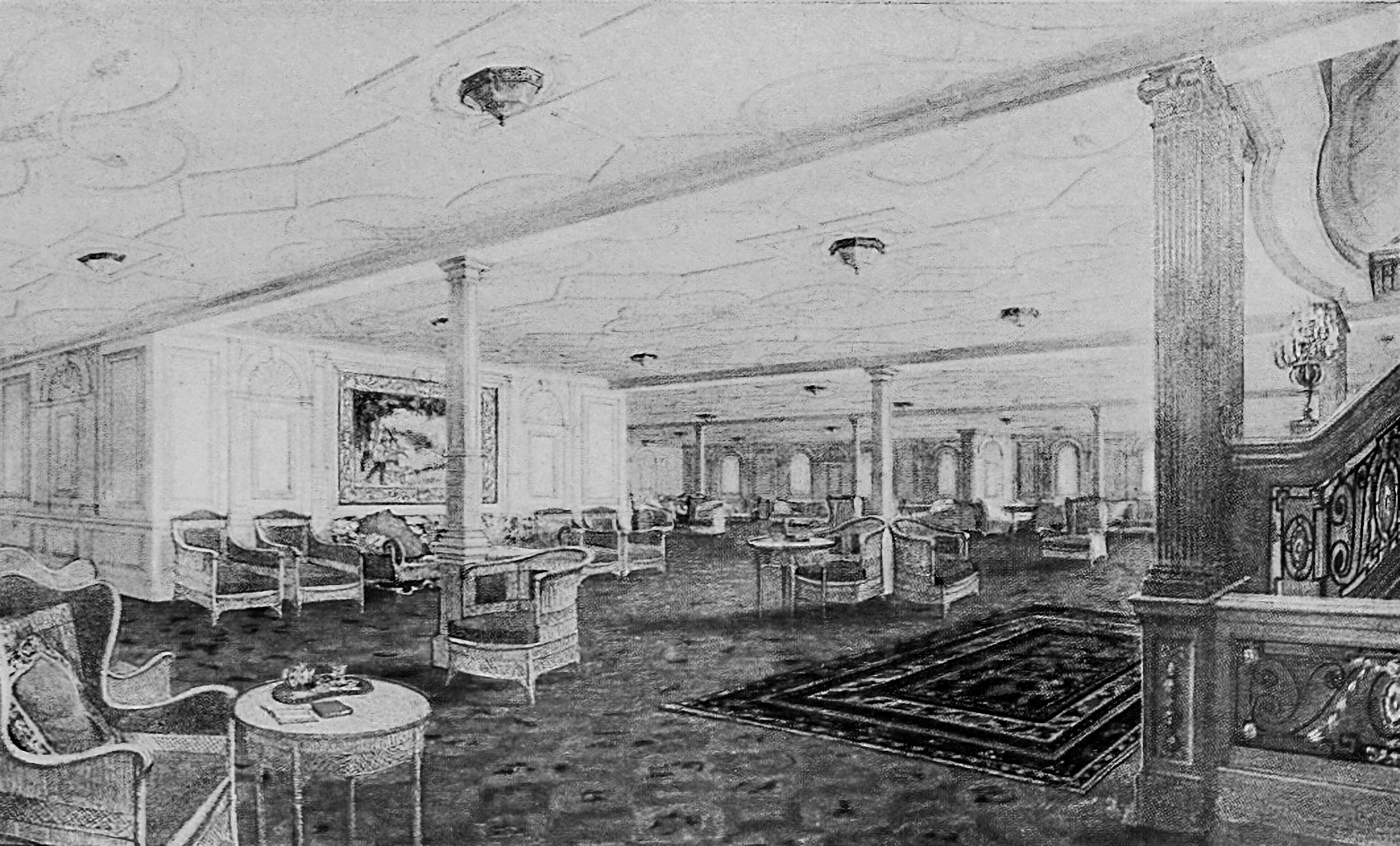 Titanic 's reception room.